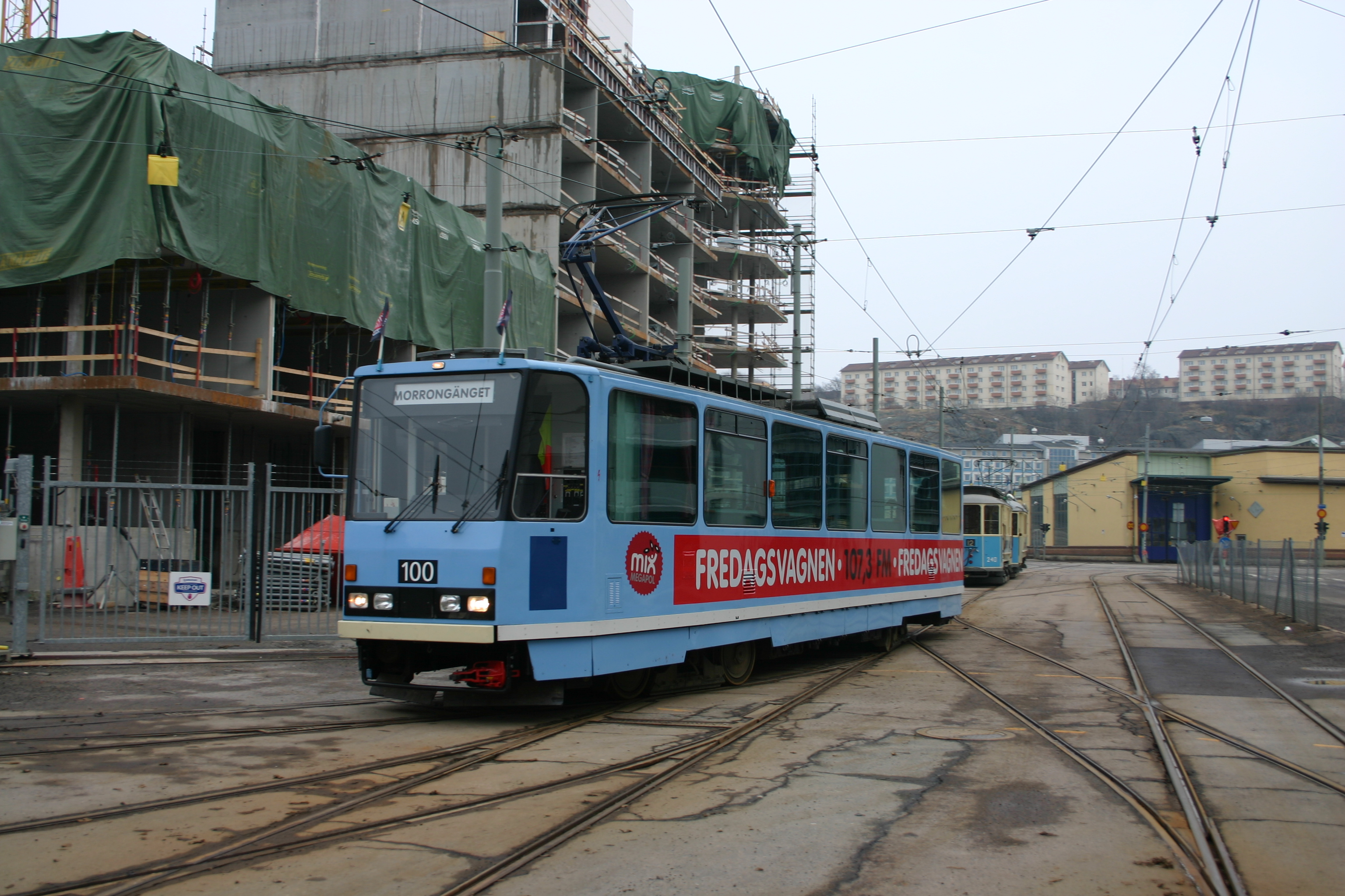 Tram Tatra T7B5 as M30 number 100, in Gothenburg, Ringlinien.